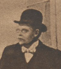 George Head Barclay, British ambassador in Romania during the WWI